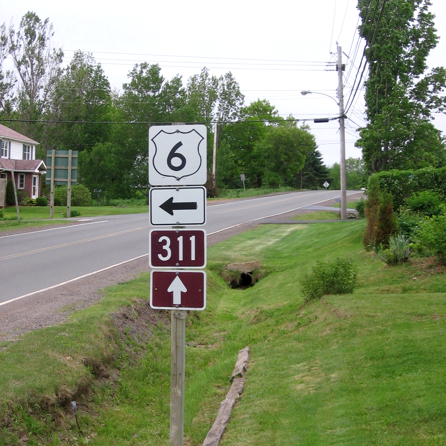 Highway route sign - Route 311, Colchester County, NS